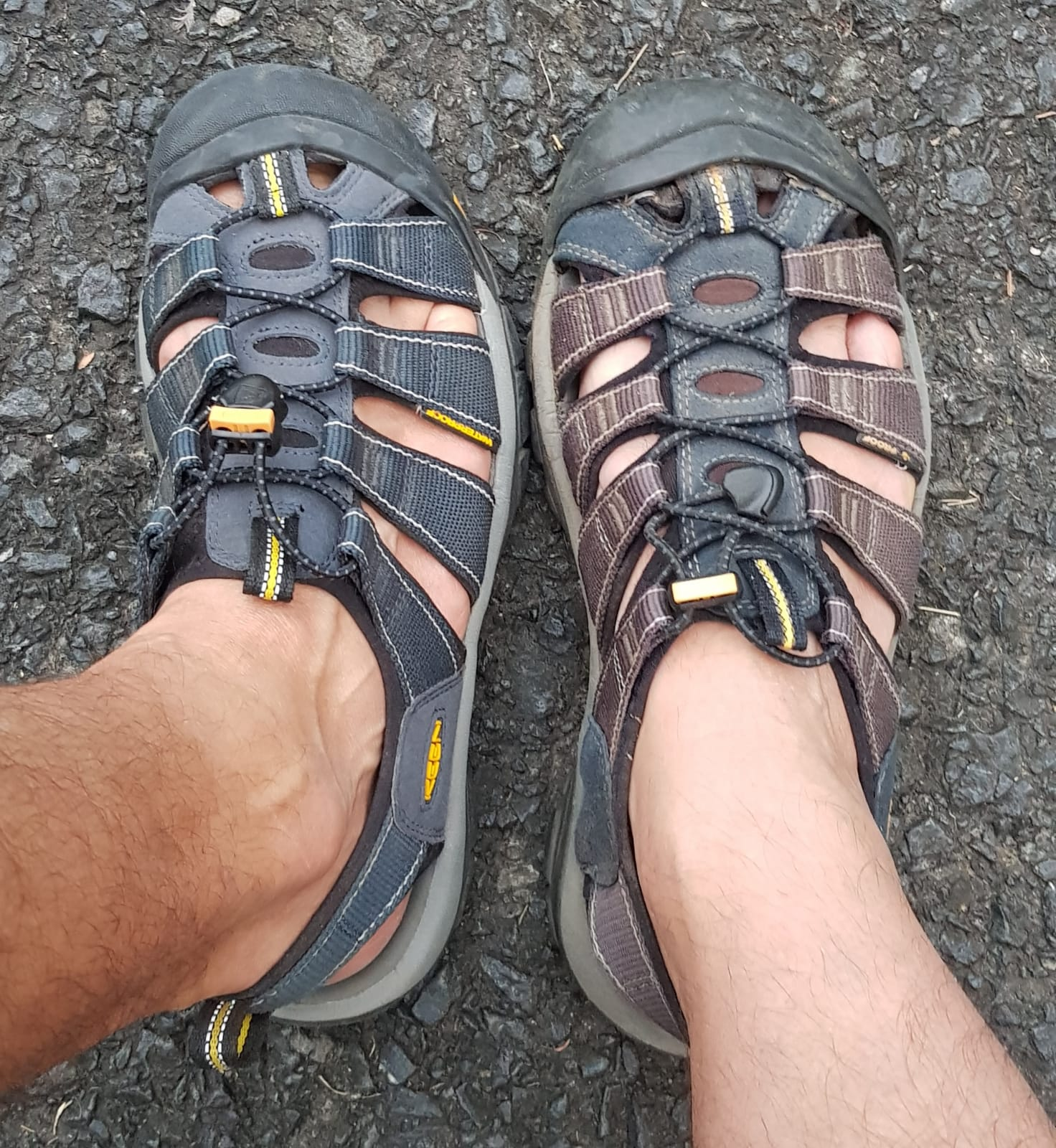 Two Keen Newport shoes, one new (2020) another ten years old (2010).